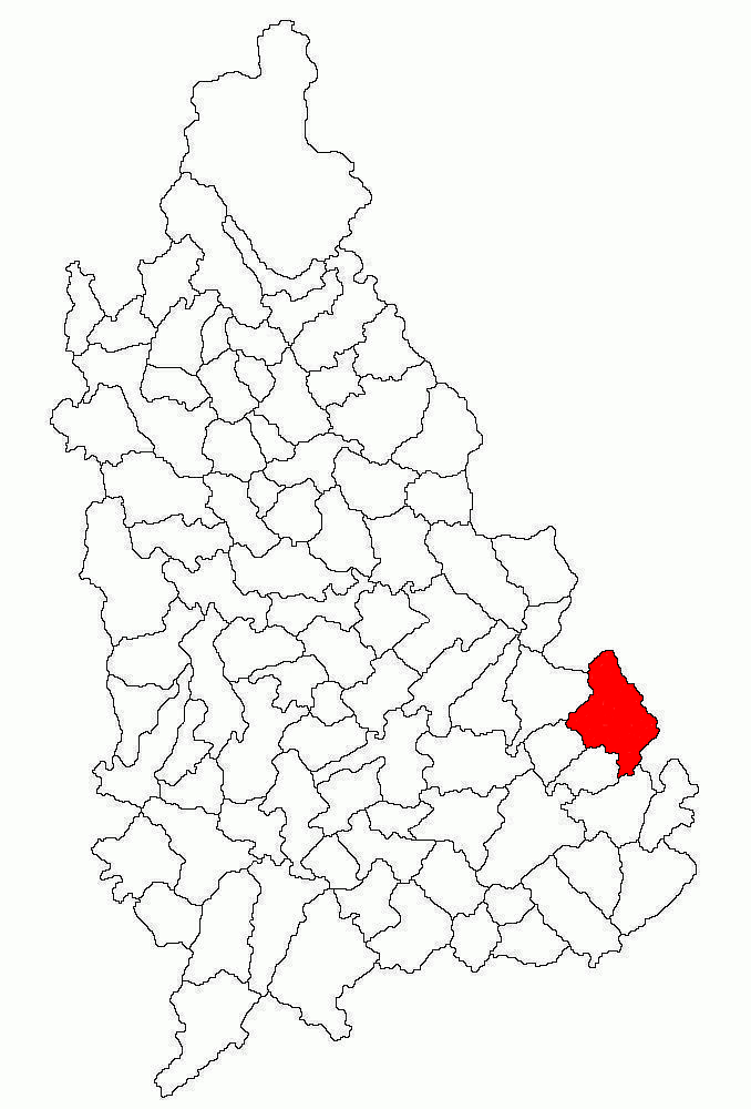 Locator map of Cornești commune, Dâmbovița County, Romania